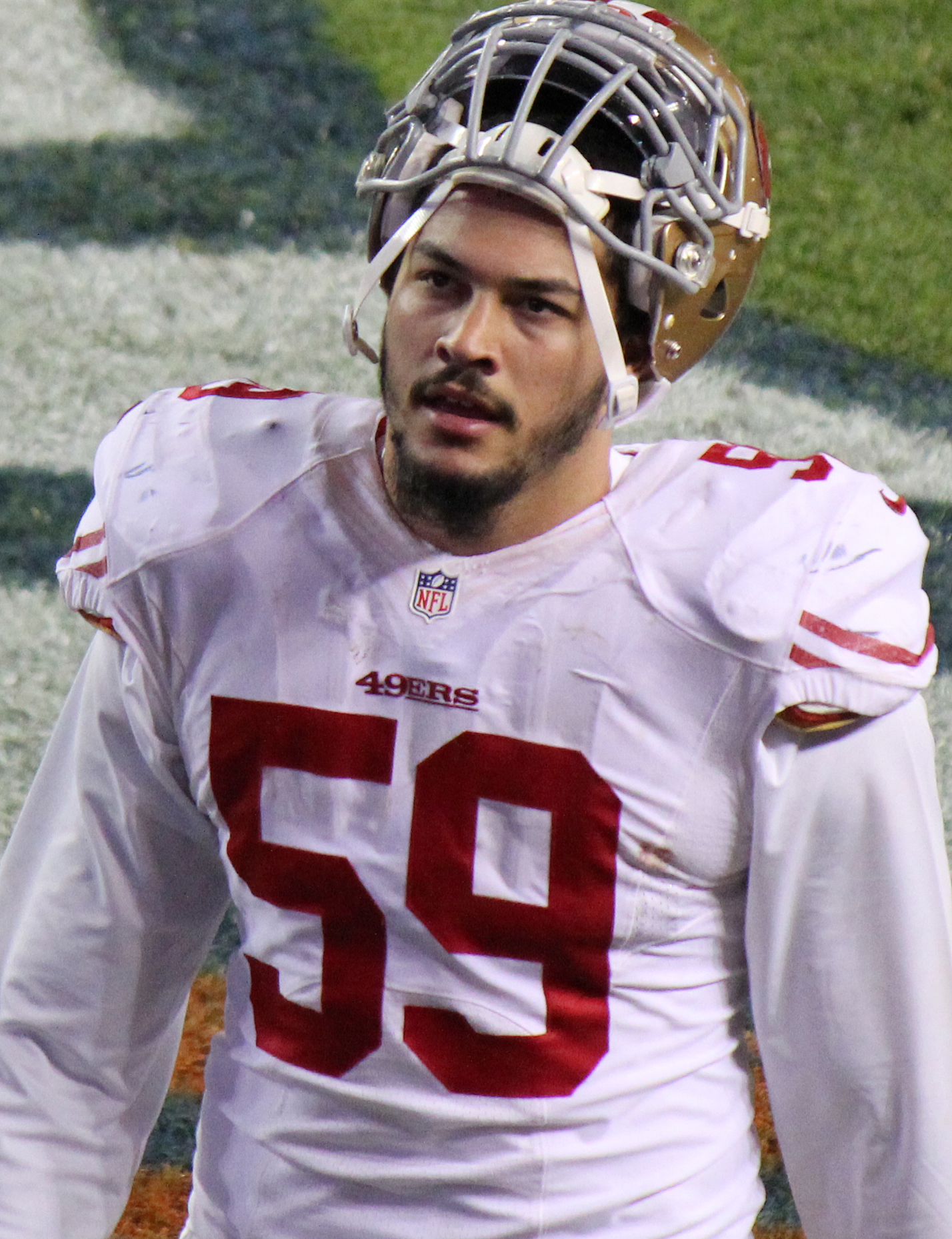 Aaron Lynch, a player on the National Football League.